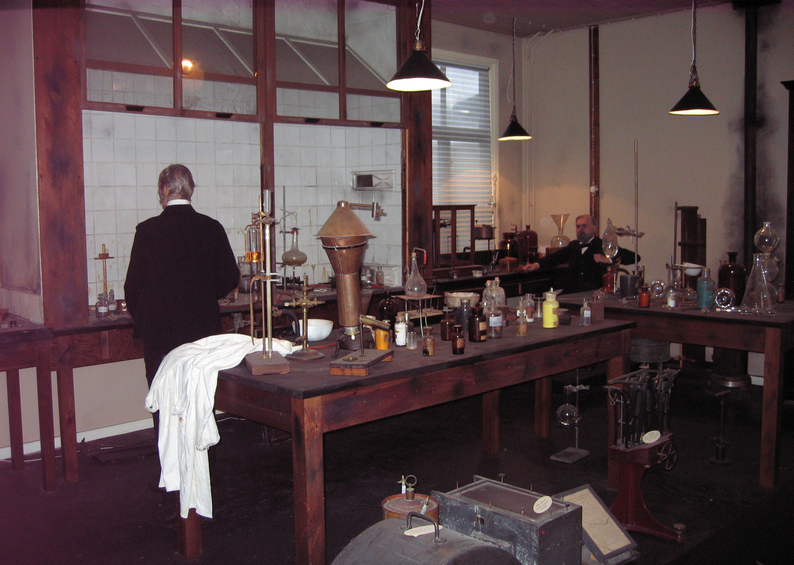 Recreation of Alfred Nobel's 1895 laboratory in the Nobel museum at Björkborn, Karlskoga. A likeliness of Alfred Nobel is seated in the corner.